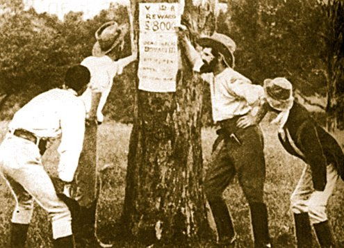 Image of the 1906 film, The Story of the Kelly Gang the first full length feature film about the Australian bush ranger, Ned Kelly.